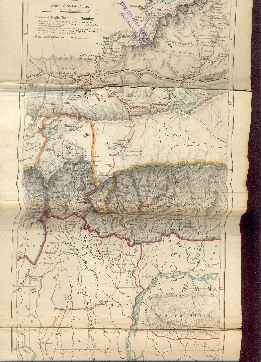 Historical Map of Sikkim in northeastern India extracted from map prepared by Trelawney Saunders, 1876 titled